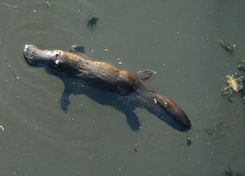 Ornithorhynchus anatinus Description Swiming Platypus * Photographer Peter Scheunis * Source self-made Date September 2004 Location Broken River-Queensland-Australia